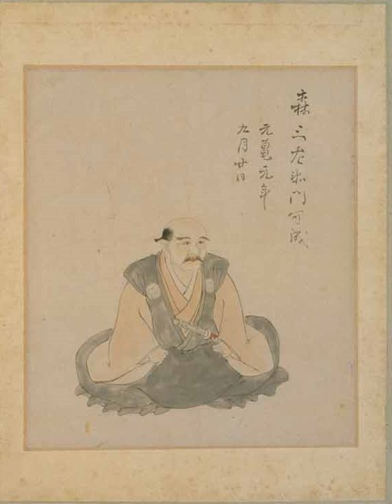 Portrait of Mori Yoshinari